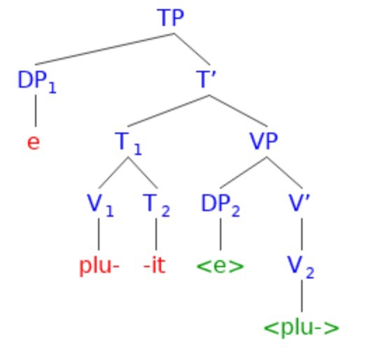 syntax phrase structure tree for the Latin phrase 'pluit,' meaning 'it rains' in English. The website was used for drawing the syntax phrase structure tree.